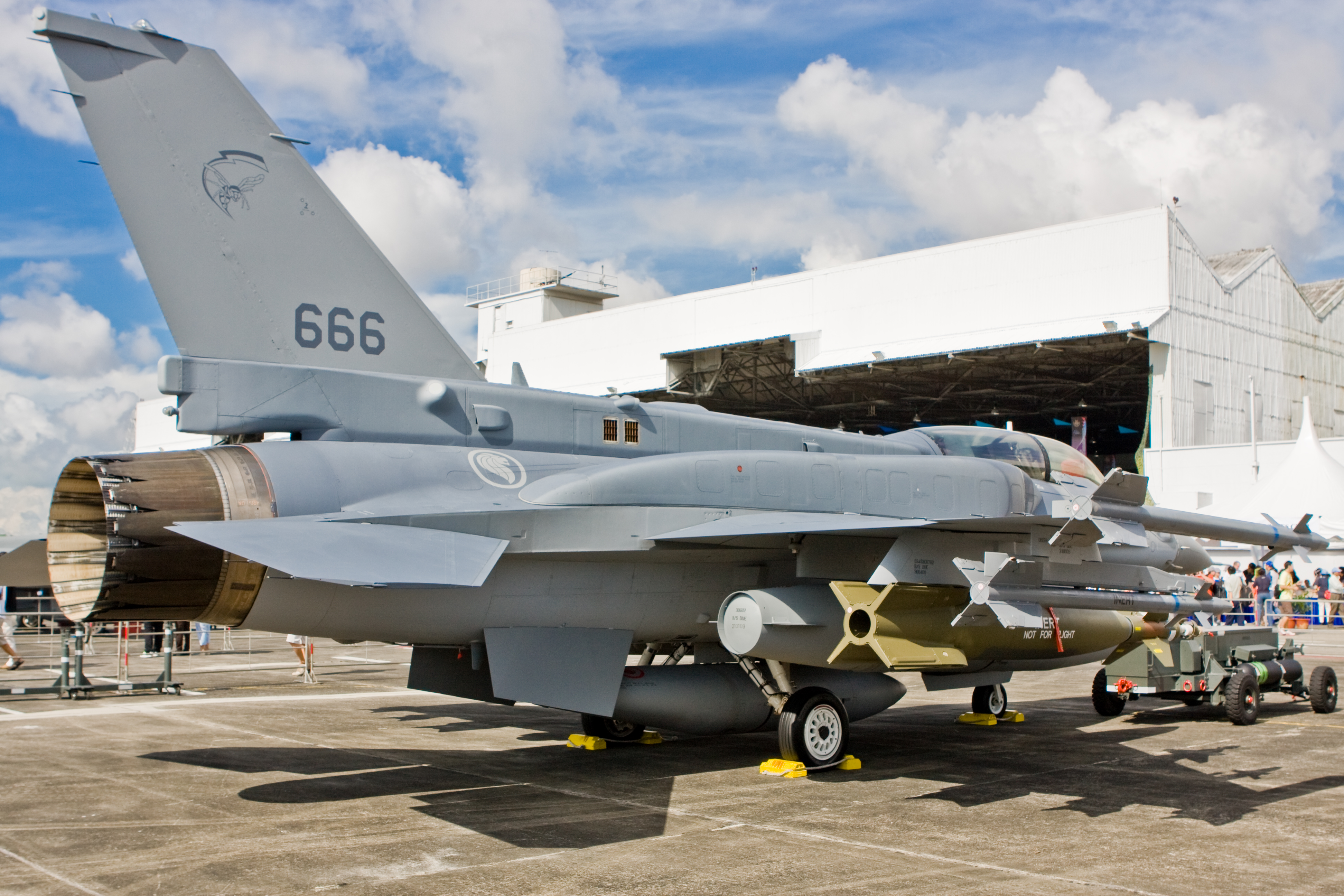 Latest RSAF F-16D Block 52+ Fighting Falcon with Conformal Fuel Tanks, AIM-9 Sidewinder missiles and Paveway II Laser Guided Bombs